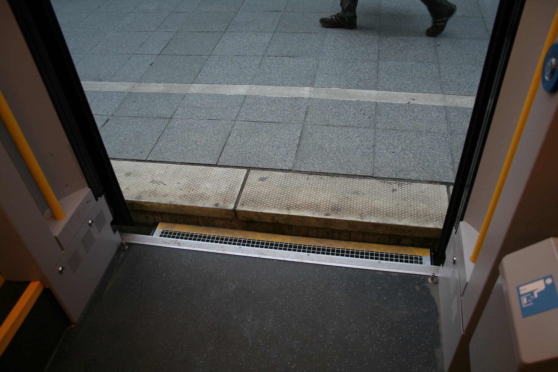 Entrance of an Desiro Mainline II EMU